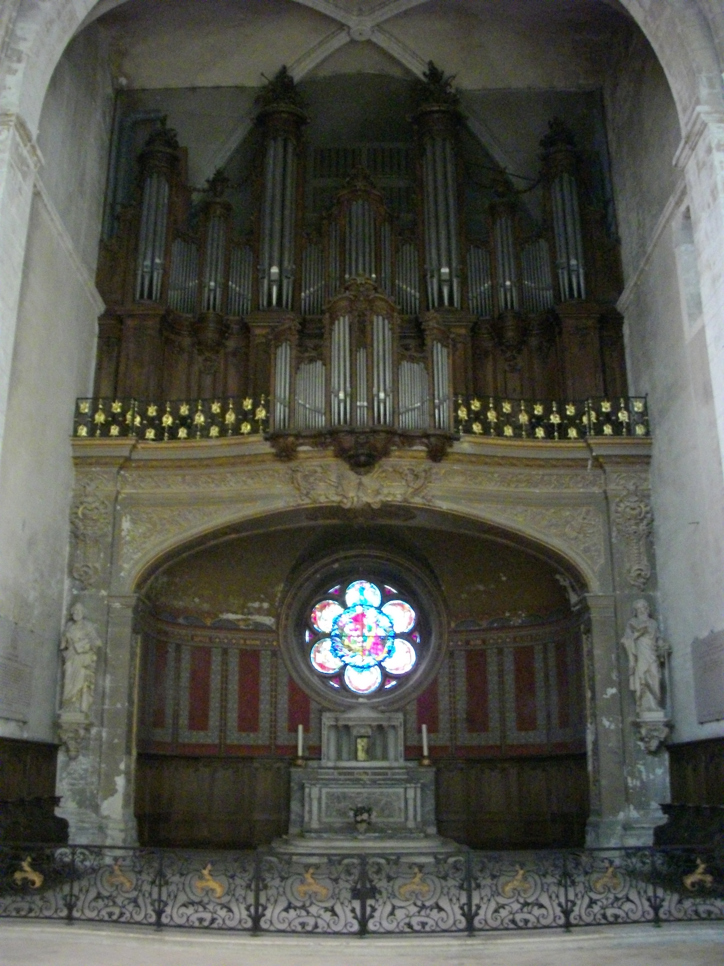 Our Lady cathedral of Verdun (Meuse, France). Pipe organ